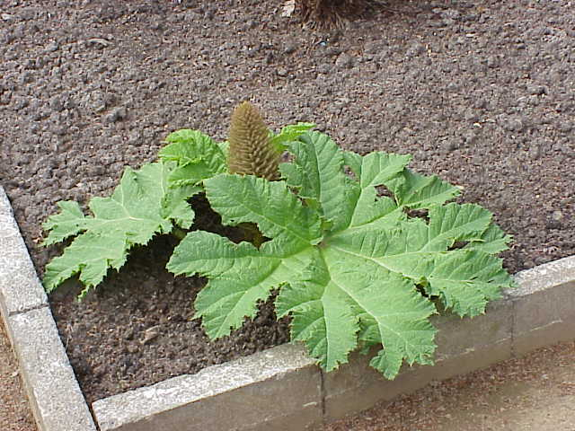 Species: Gunnera tinctoria Family: Haloragaceae Image No. 4